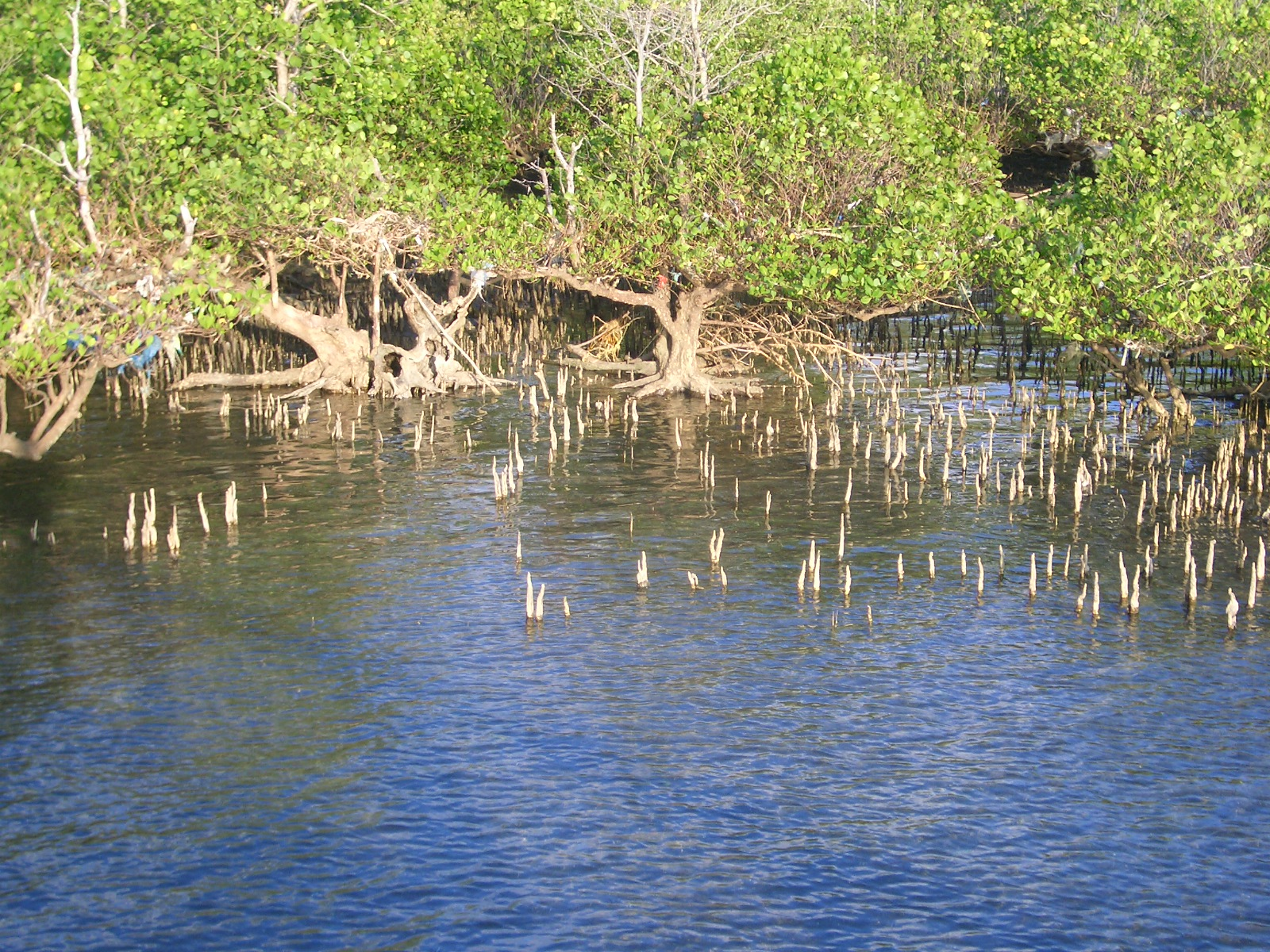 Mangrove pneumatophores, Sulawesi